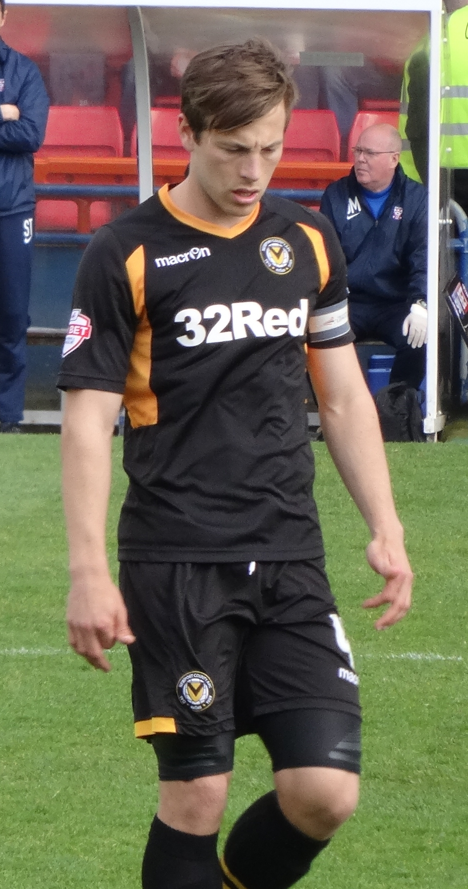 Max Porter playing for Newport County against York City at Bootham Crescent, York on 26 April 2014